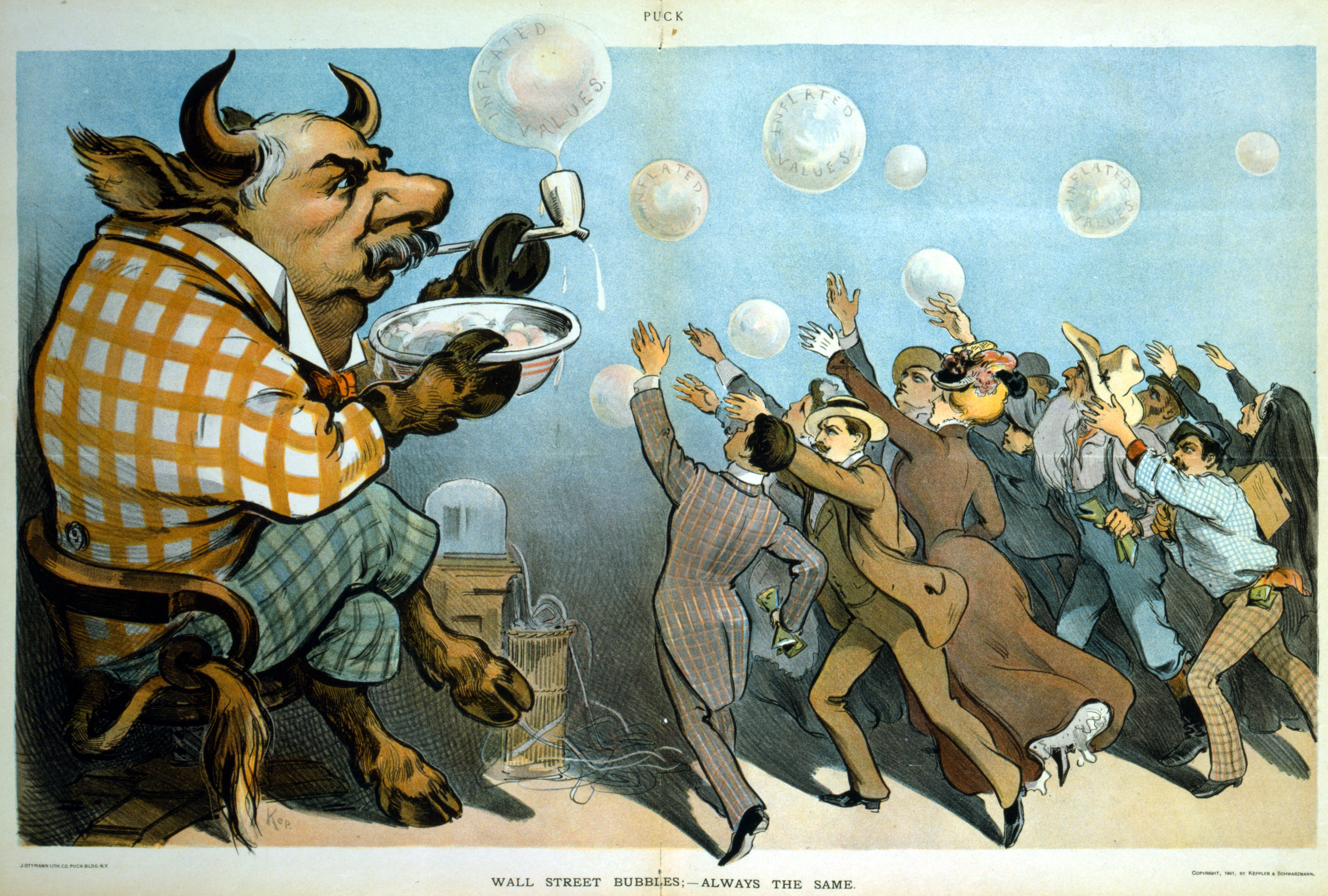 Cartoon, "Wall Street bubbles - Always the same". American financier J. P. Morgan is depicted as a bull, blowing soap bubbles for eager investors. (See Bull market). Several of the bubbles are labeled, "Inflated values." Seen behind Morgan is a stock ticker, a machine which provided current information on stock prices. Cartoon brightened and cropped from LOC scanned image.